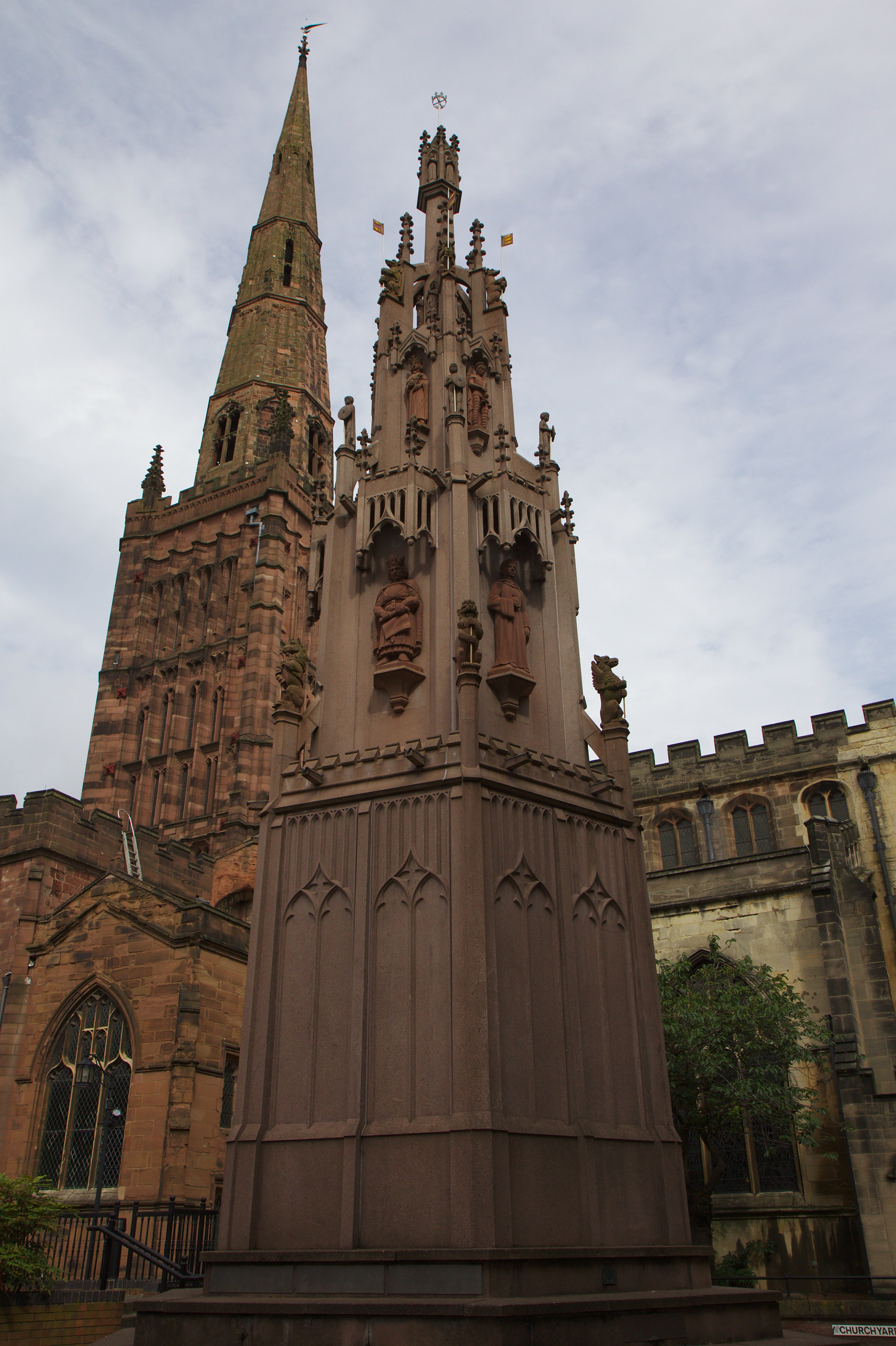 A4 - Coventry Cross in Coventry, UK with Holy Trinity Church in the background